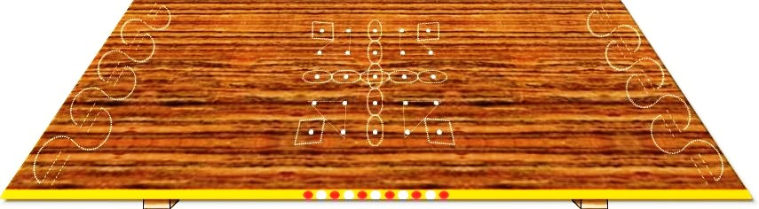 A small table (usually a few inches high) used for puja and other religious purposes.